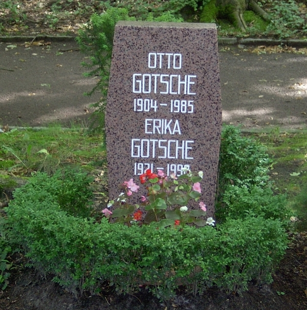 Grave of Otto Gotsche on Zentralfriedhof Friedrichsfelde in Berlin